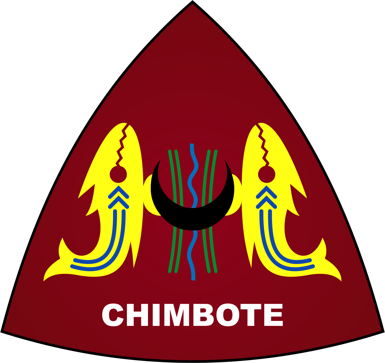 District of Chimbote - Province Santa - Ancash Region